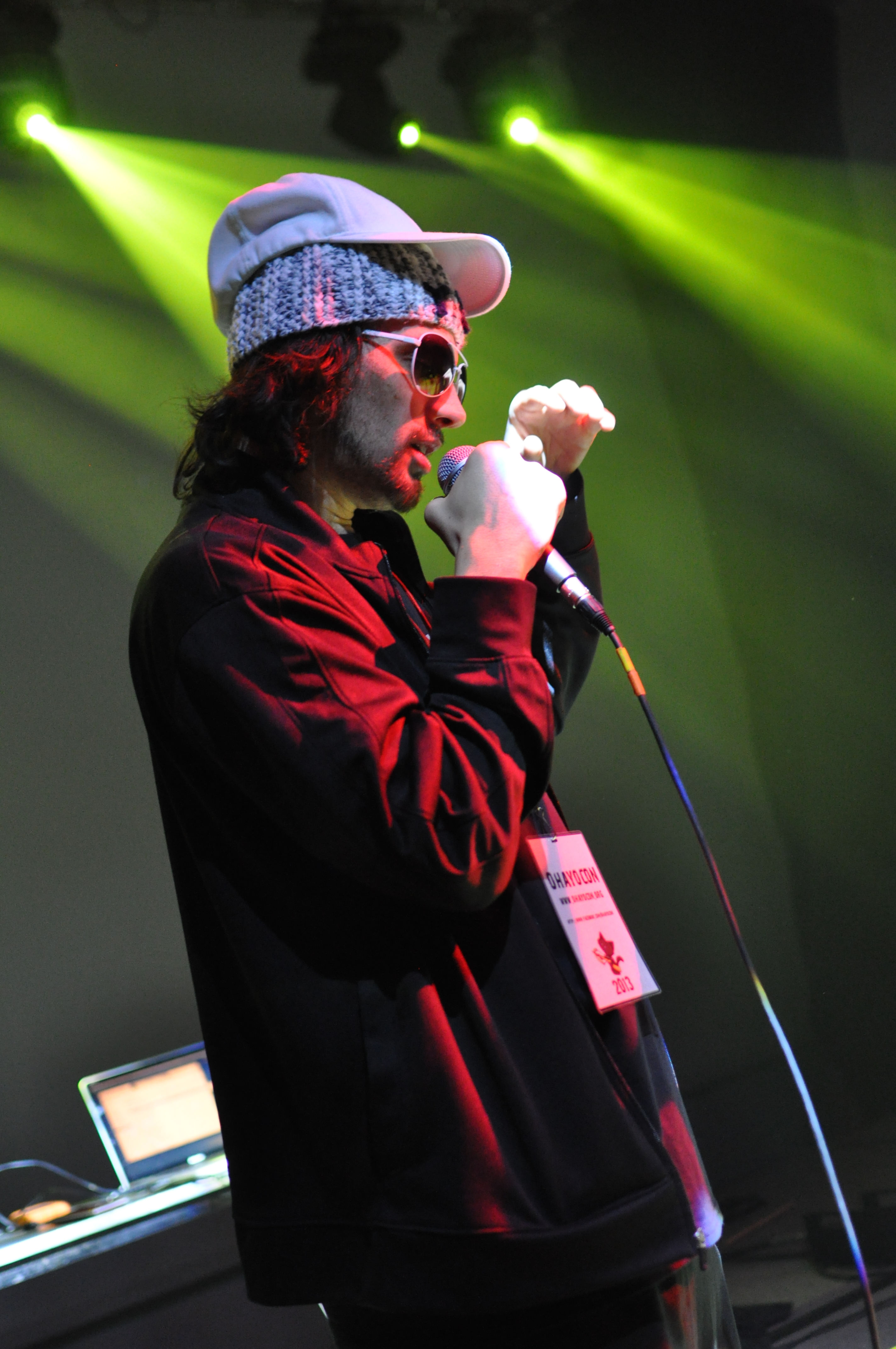 YTCracker performing live at Ohayocon 2013, from UpcomingCons.cm